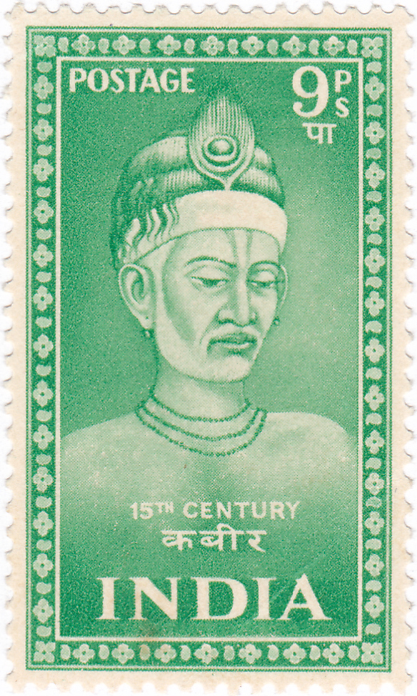 Indian stamp with the portrait of Kabir, mystic of middle-age.